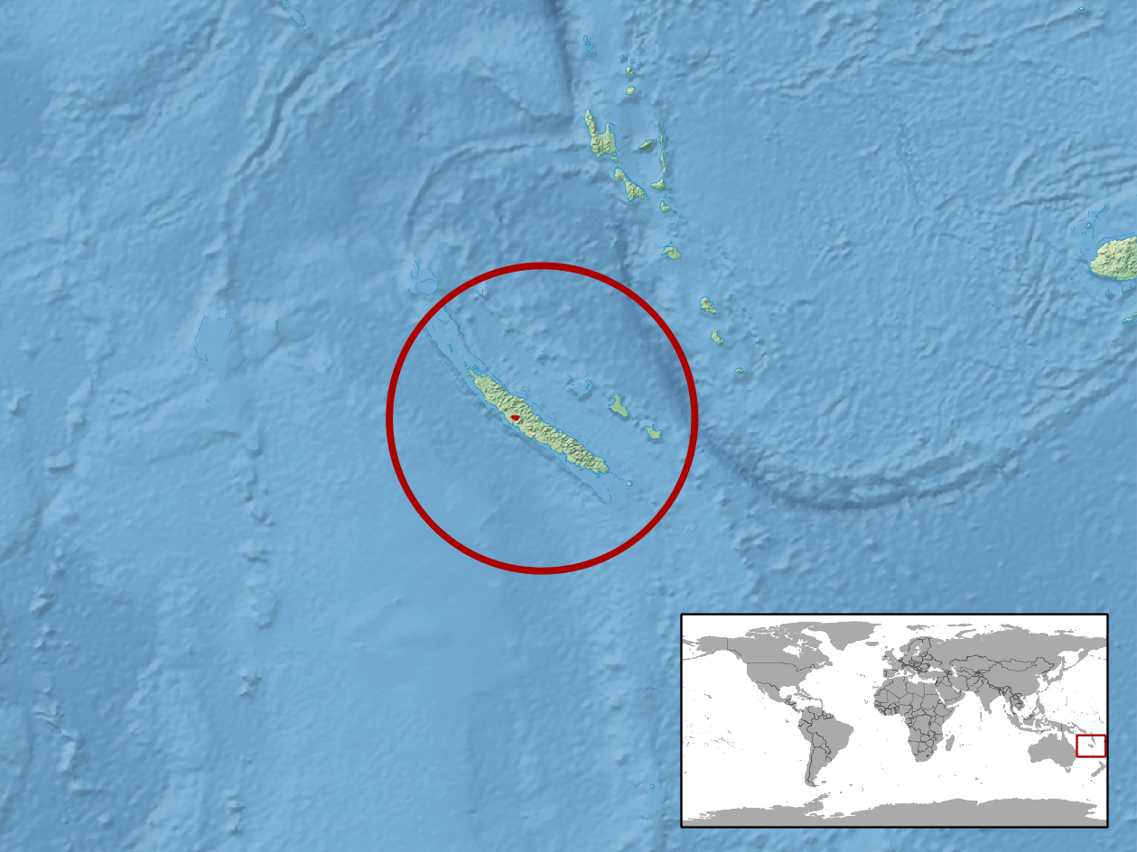 geographic distribution of Lioscincus vivae